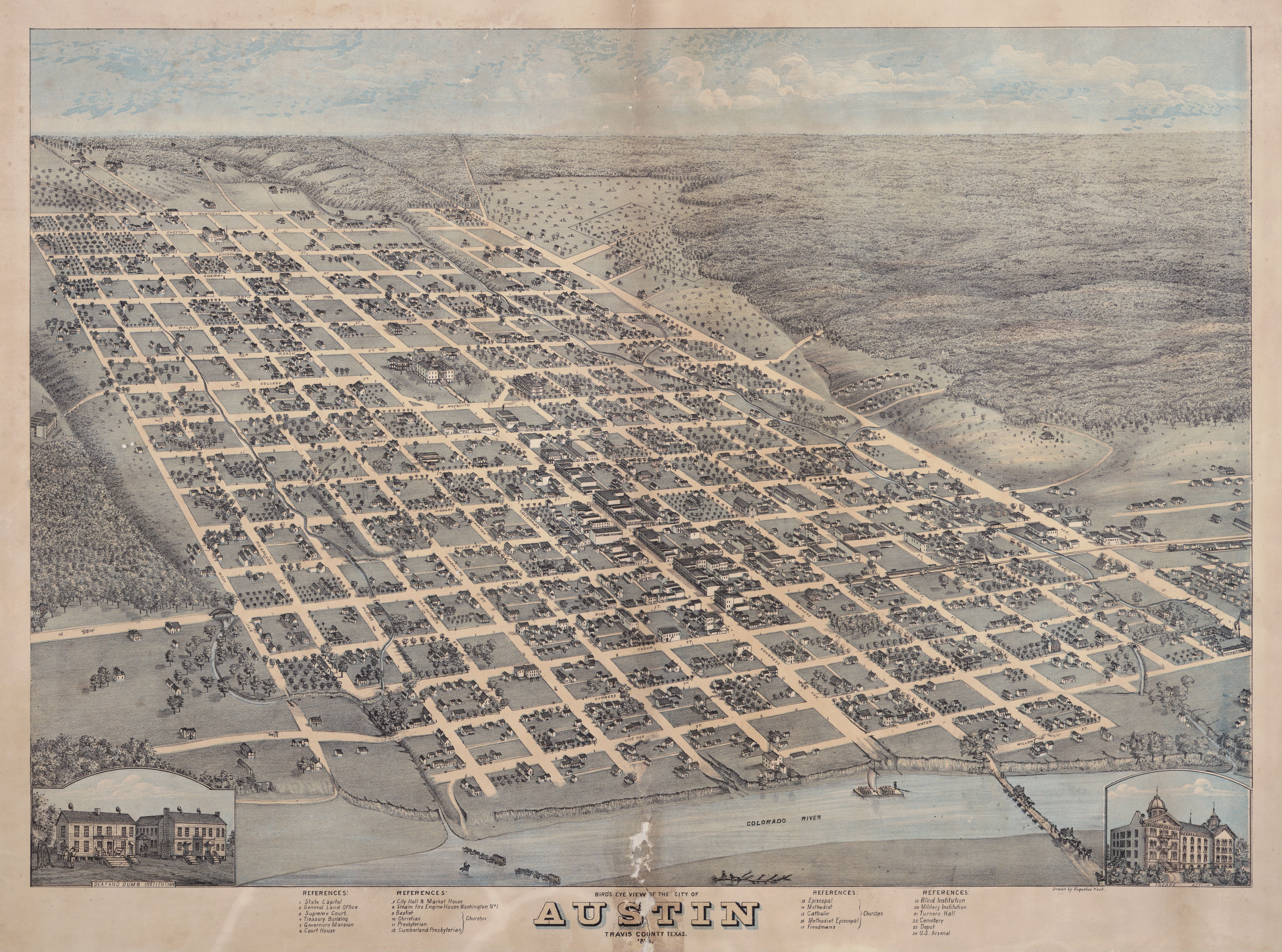 Austin, Texas in 1873. Bird's Eye View of the City of Austin Travis County Texas 1873, 1873. Lithograph (hand-colored), 19.7 x 28.1 in. Published by J. J. Stoner, Madison, Wis. Center for American History, The University of Texas at Austin. (The University of Texas didn't start being built until 10 years later.)